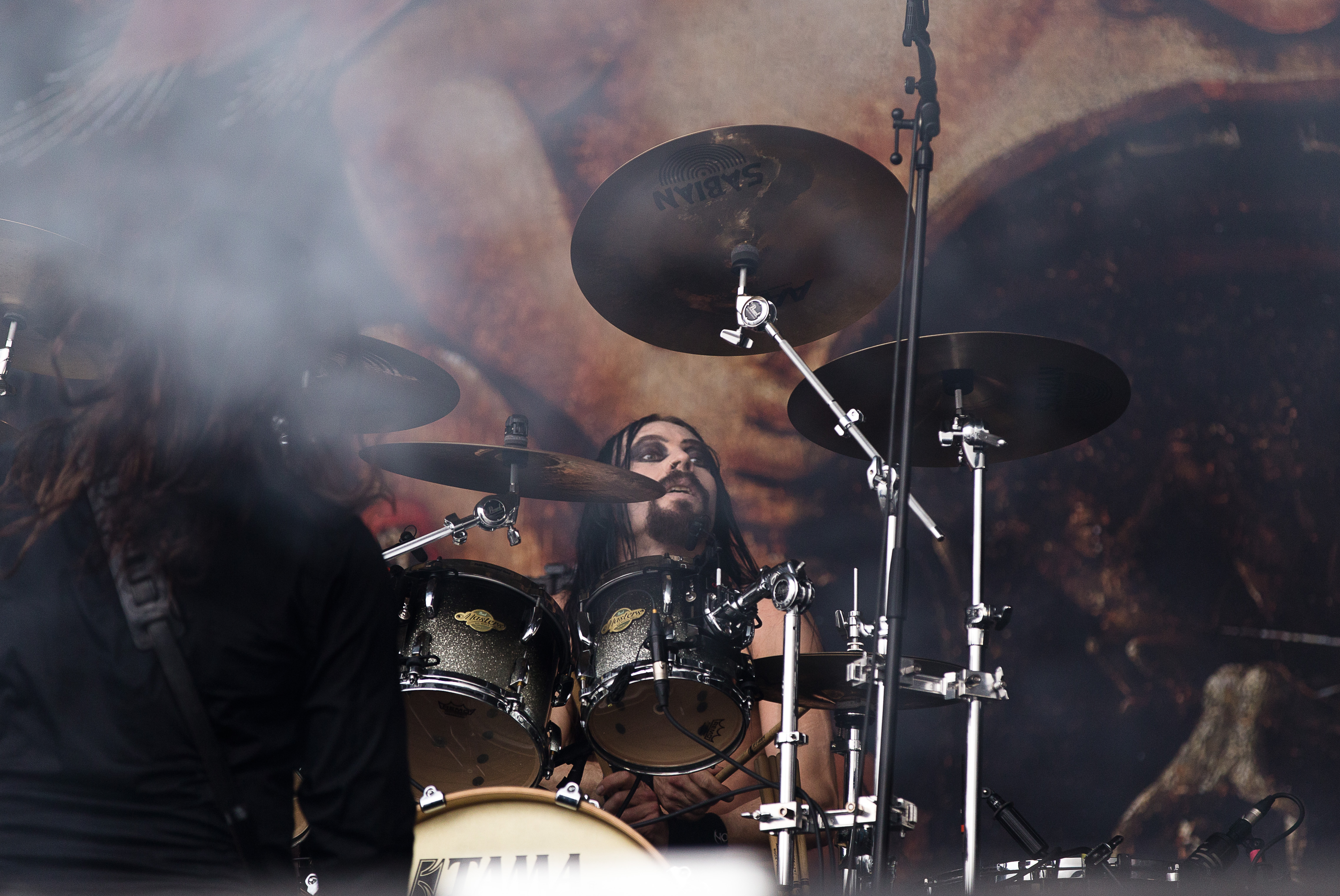 The Norwegian black metal band Satyricon at the Rockharz Open Air 2016 in Ballenstedt/Germany.